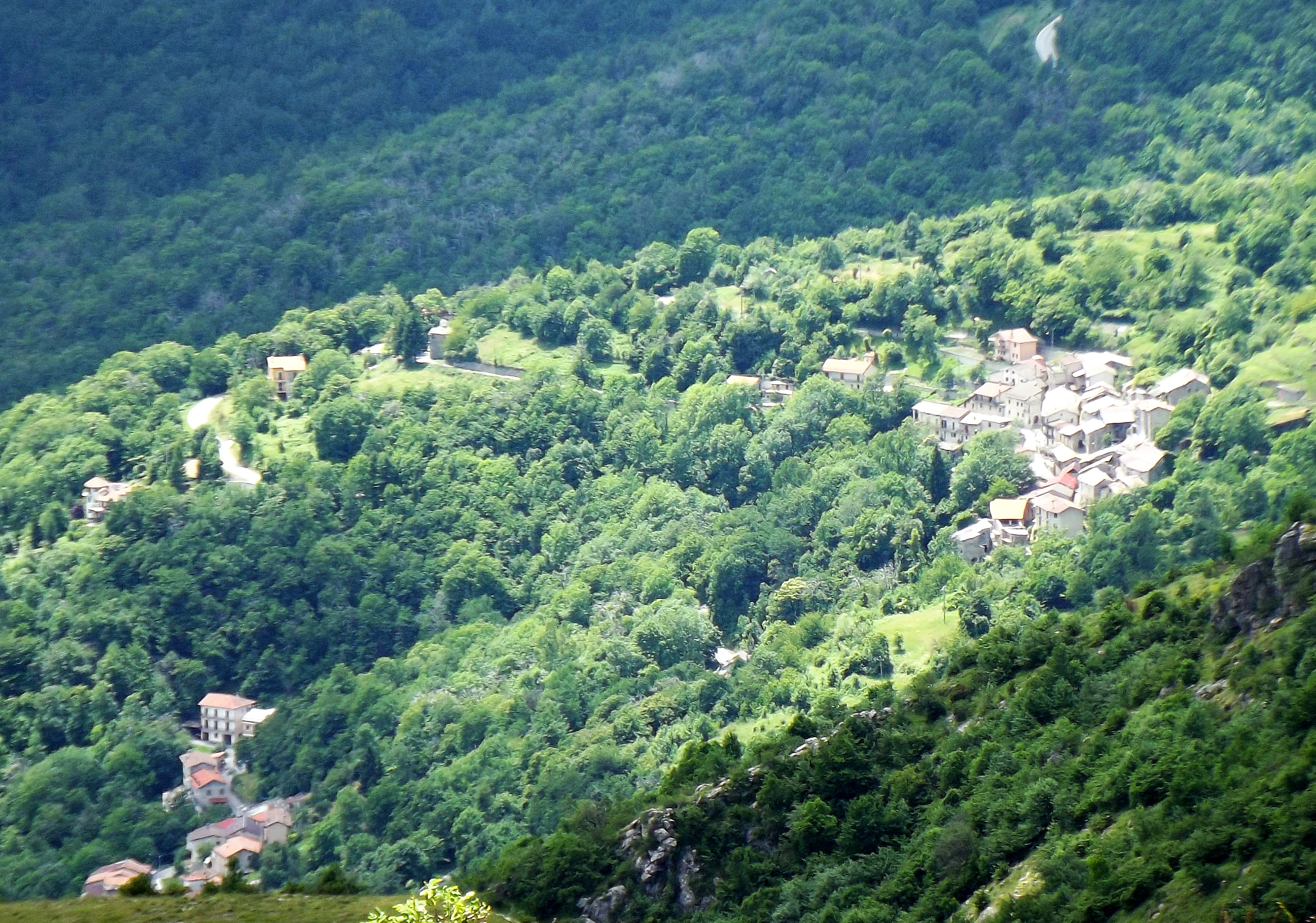 Caprauna (CN, Italy): panorama from mount Dubasso